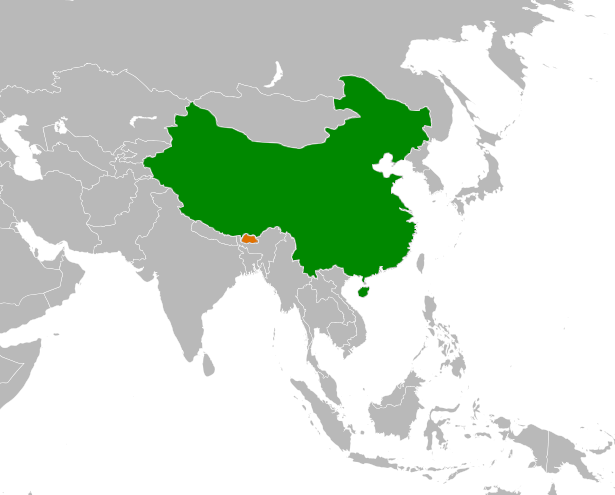 Locator map showing China and Bhutan